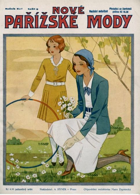 Nové pařížské módy (New Paris fashion), the Czech fashion revue, 42, 1930, cover